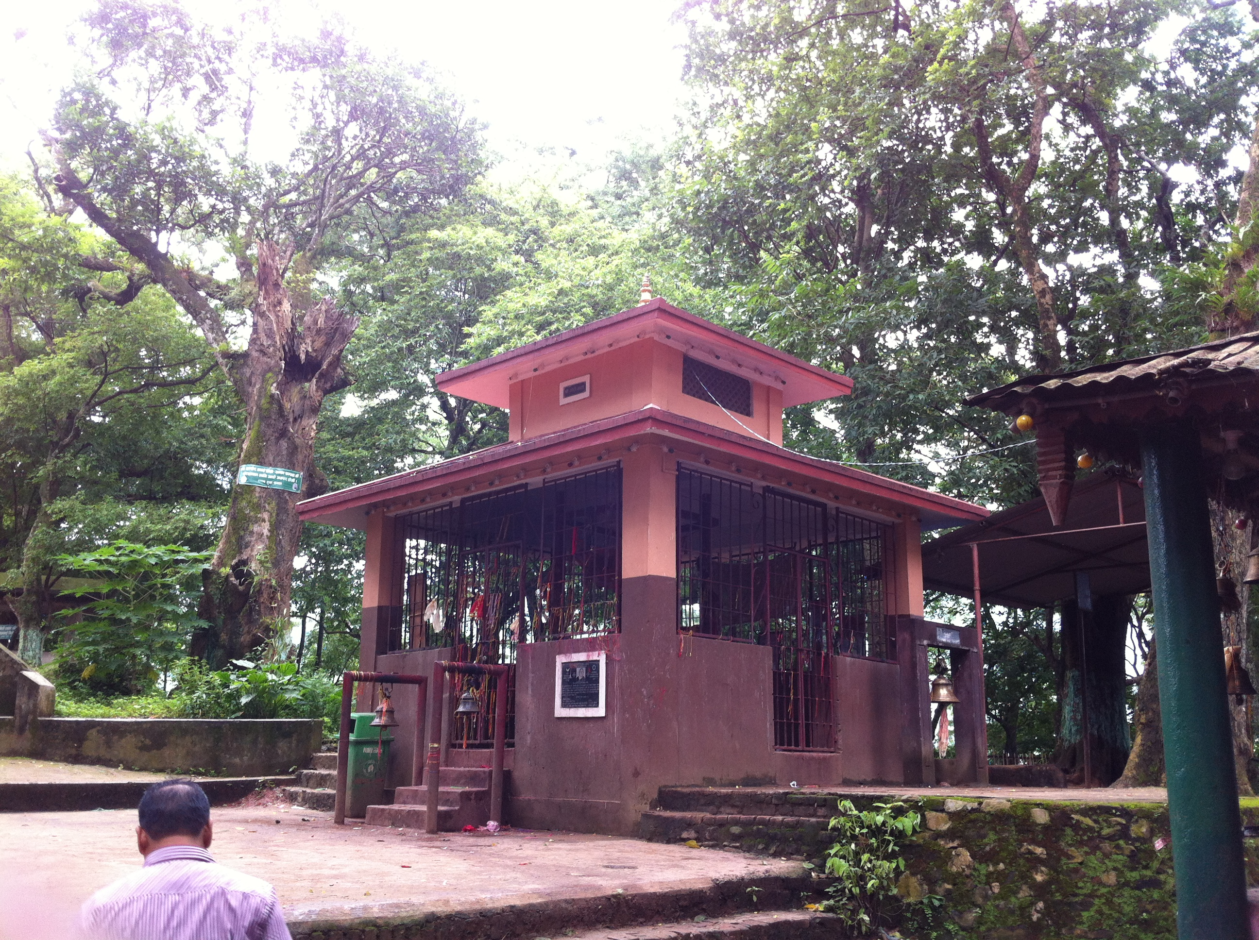 Temple of Dharan